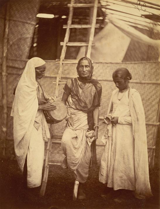 A reputed hermaphrodite (Hijra) and companions – Eastern Bengal 1860′s. Hermaphrodite is the third gender, also known today in South Asia as ‘hijra’ they are often followers of the Hindu goddess Bahuchara Mata.